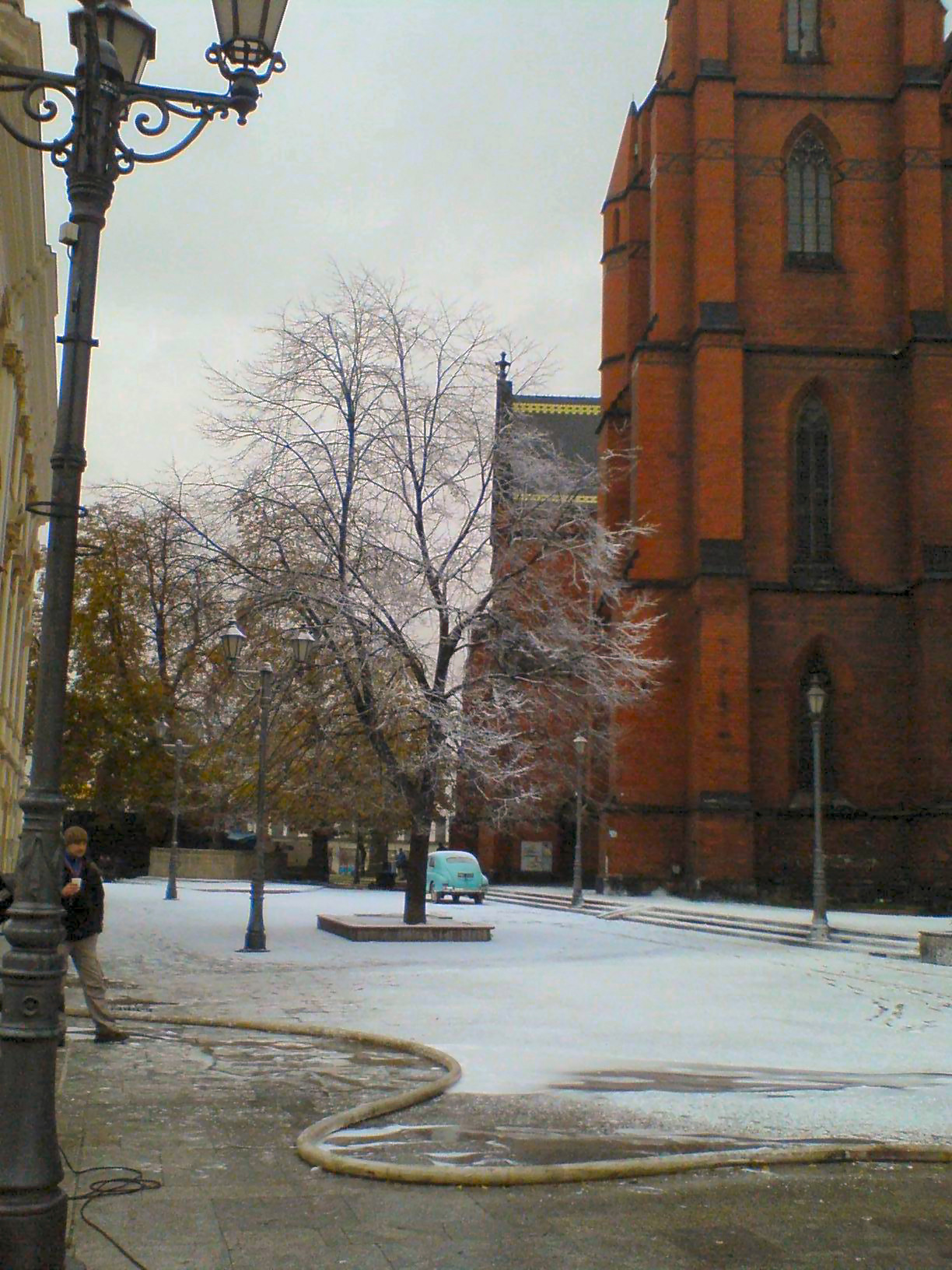 Set of movie "Mała Moskwa" (Legnica), on the left there are part of Cathedral St. St. Peter and Paul